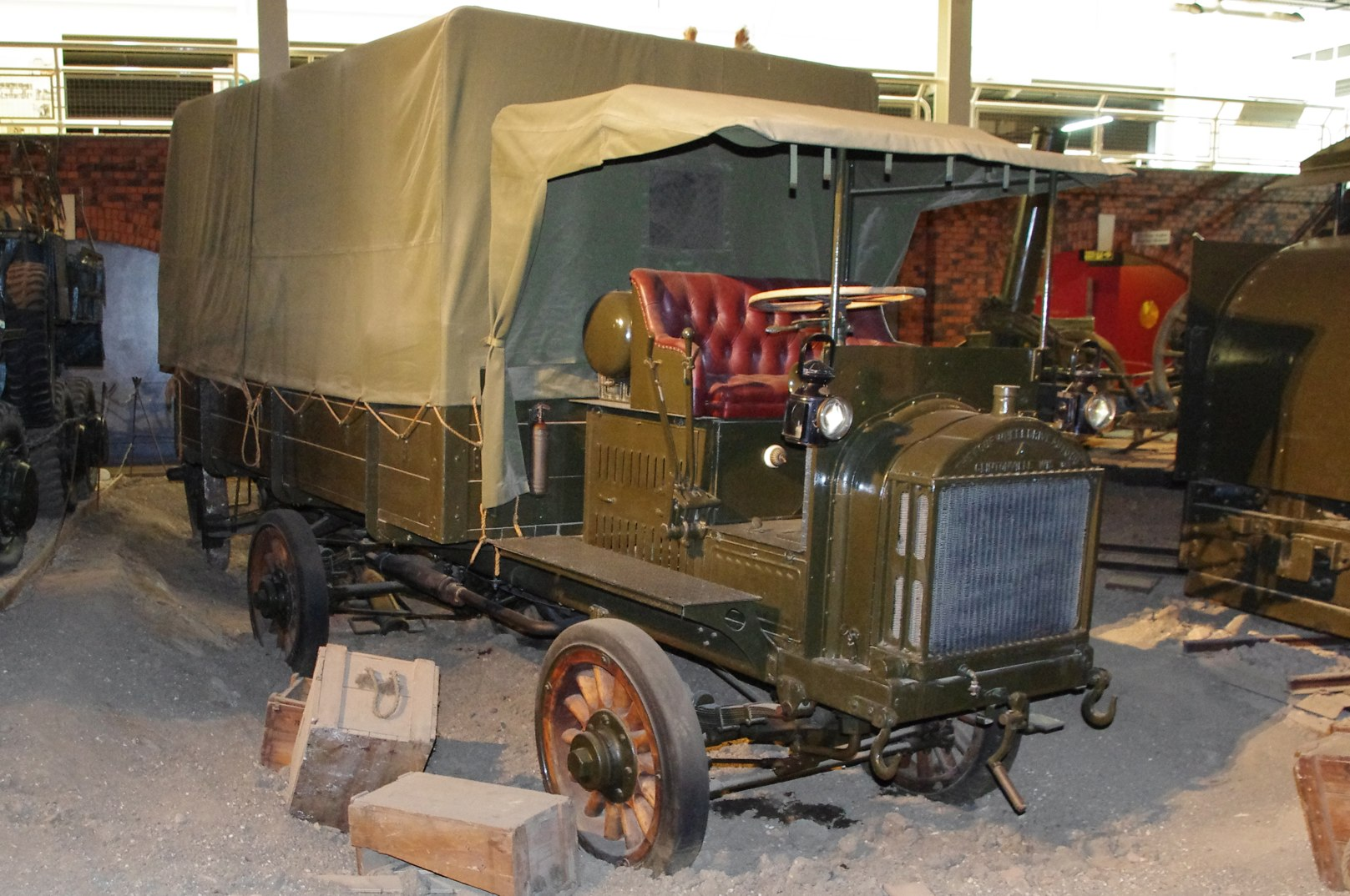 FWD (Four Wheel Drive Auto Company of Wisconsin) military truck from World War I, at Imperial War Museum Duxford, UK.